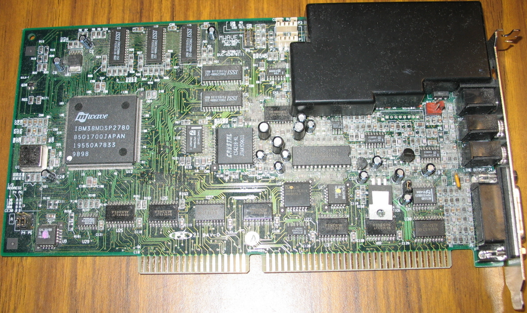 Mwave Dolphin card, pulled from an old IBM Aptiva C23.